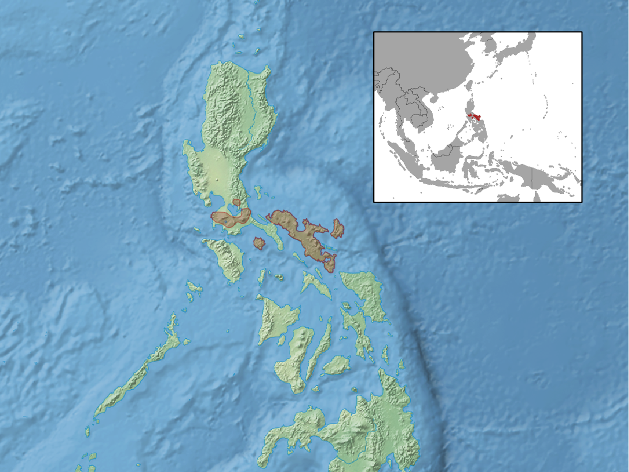 geographic distribution of Phloeomys cumingi